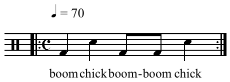 Beatbox stereotype